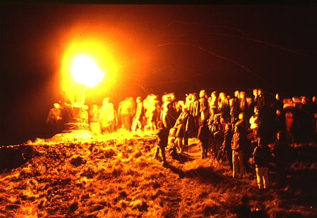 Burghead, Moray, Great Britain: Burning of the Clavie (3) - Doorie Hill Finally the Clavie is carried to the top of the Doorie Hill and the pole is placed in a socket on top of the hill.